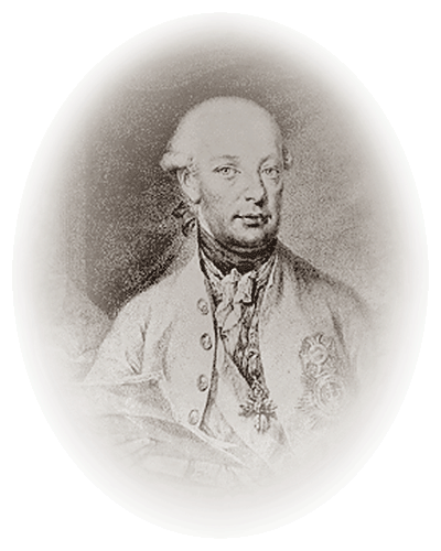 Leopold II, Holy Roman Emperor